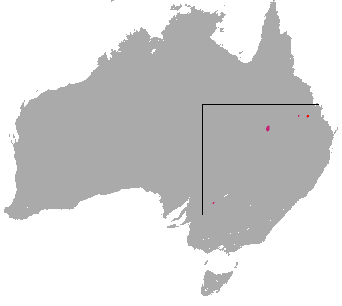 Bridled Nail-tail Wallaby (Onychogalea fraenata) range (red — native, pink — reintroduced)